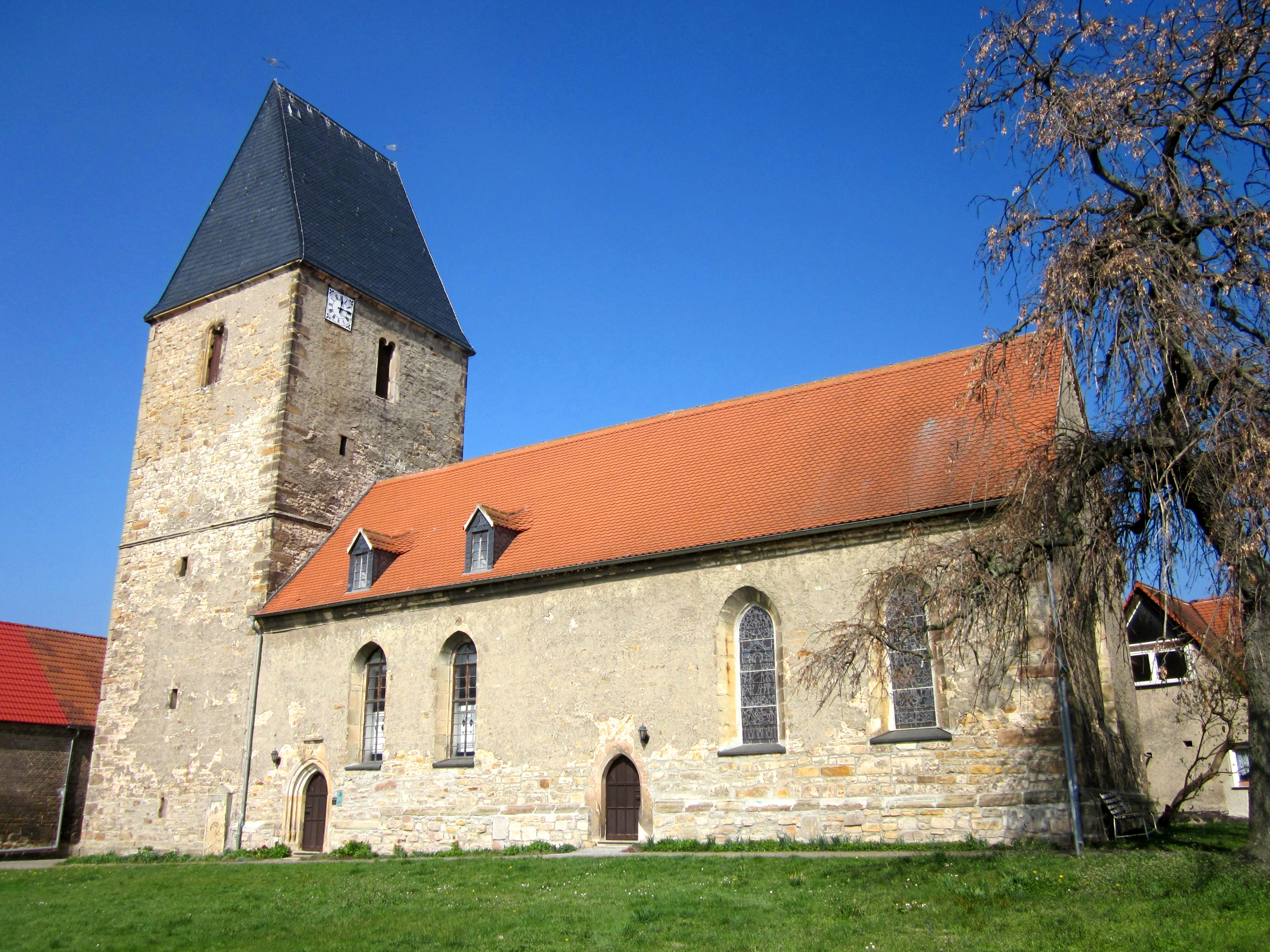 St. Nicholas Church in Niederwünsch (Mücheln/Geiseltal, district of Saalekreis, Saxony-Anhalt)